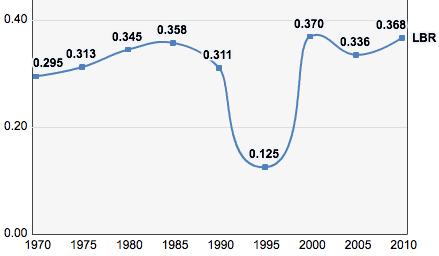 Trends in the Human Development Index for the country, 1970-2010